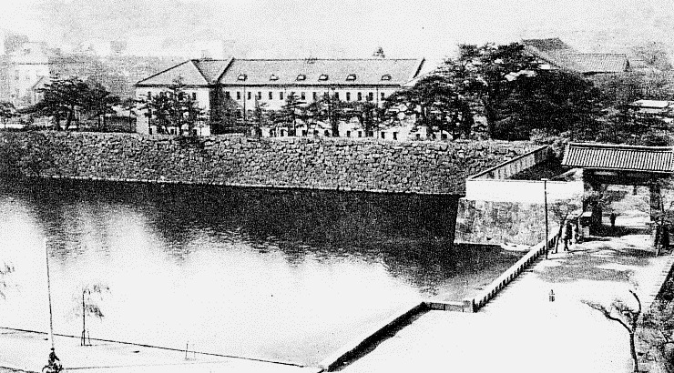 Naikaku-Bunko building in 1950s